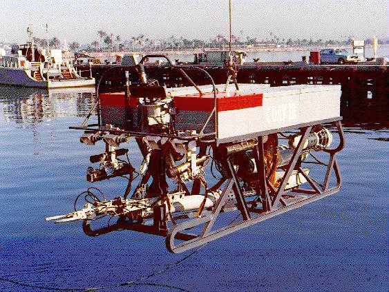 The Cable-controlled Undersea Recovery Vehicle (CURV) was developed in the early 1960's. It became famous in 1966 when it was used to recover a H-bomb off Spain in 2800 feet of water. The CURV-III was the third generation of these remotely operated vehicles capable of reaching depths of 10,000 feet. In 1973, the CURV III was used to rescue the two-man crew of the submersible Pisces III which was bottomed off Ireland. In 1976, the CURV III was used to survey the wreck of the SS Edmund Fitzgerald in Lake Superior.